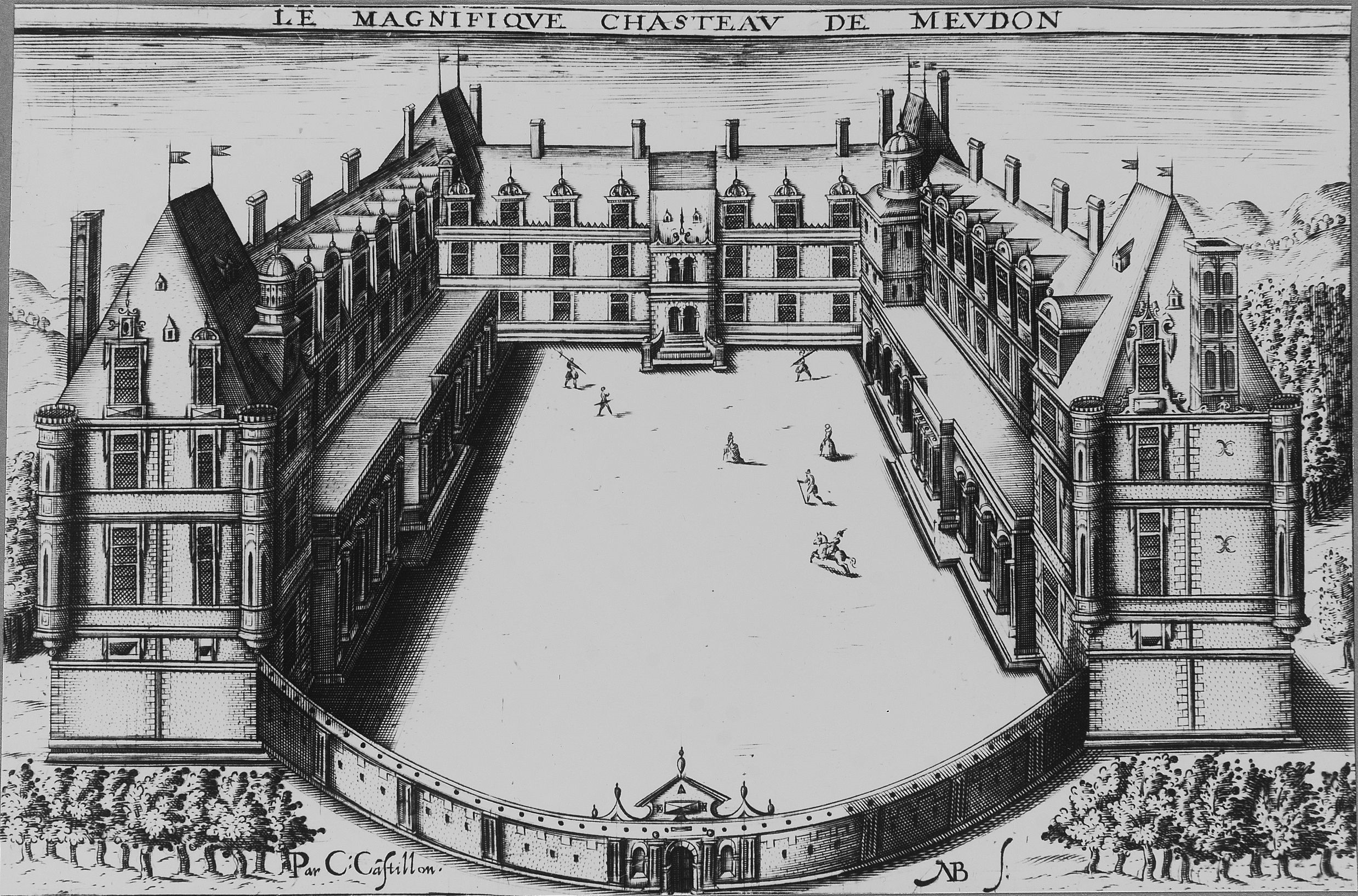 Engraving of the Château de Meudon